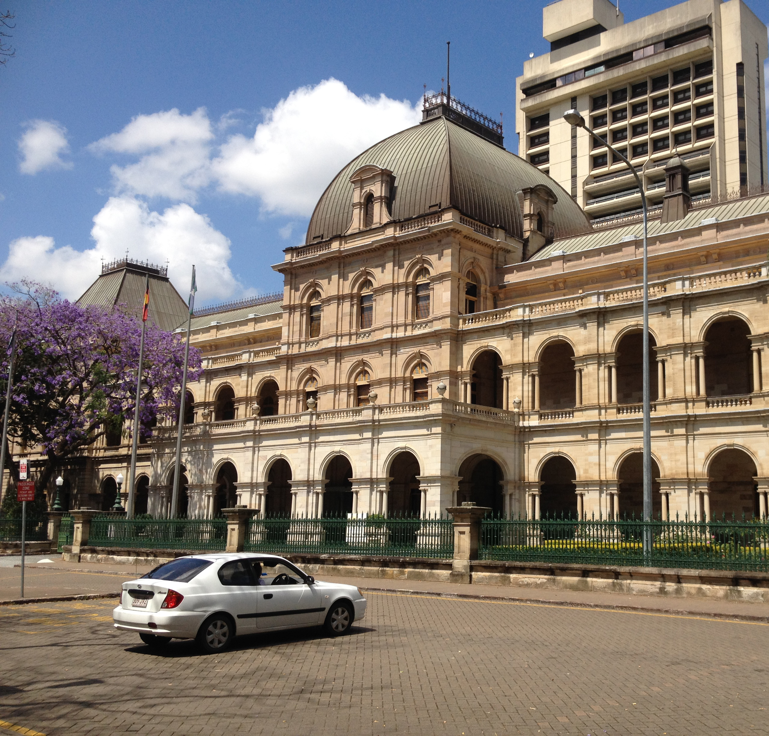 Cropped version of [1]